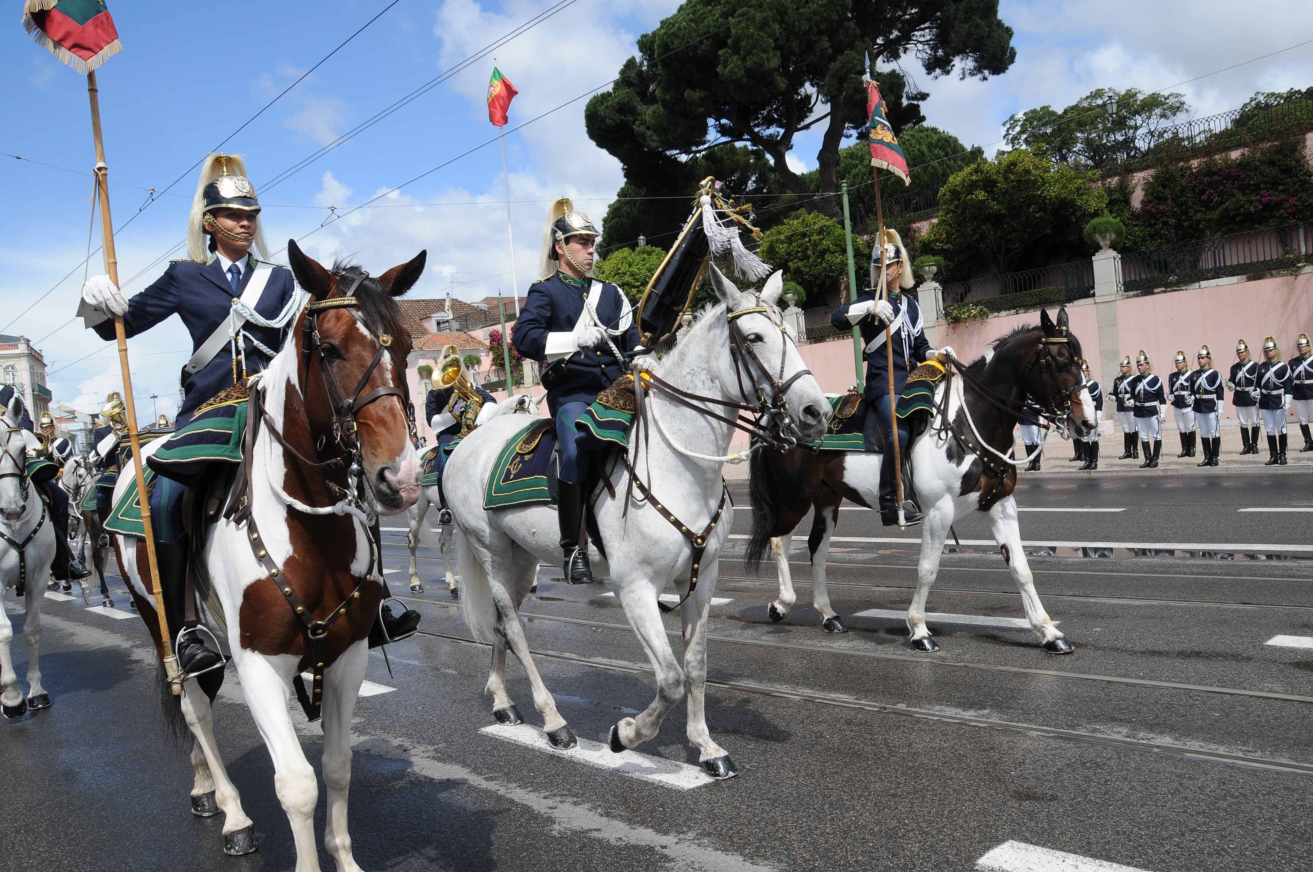 Changing of the Guard in Palácio Nacional de Belém, Lisbon, Portugal